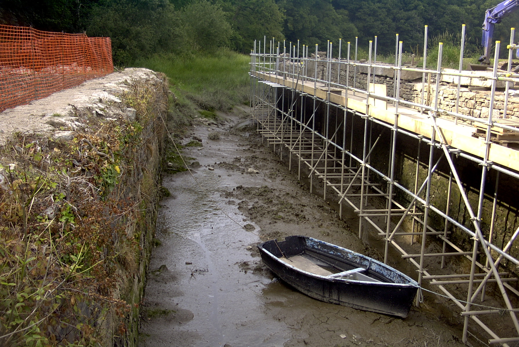 Rolle canal lock at low tide. Mud is probably about 6 feet deep